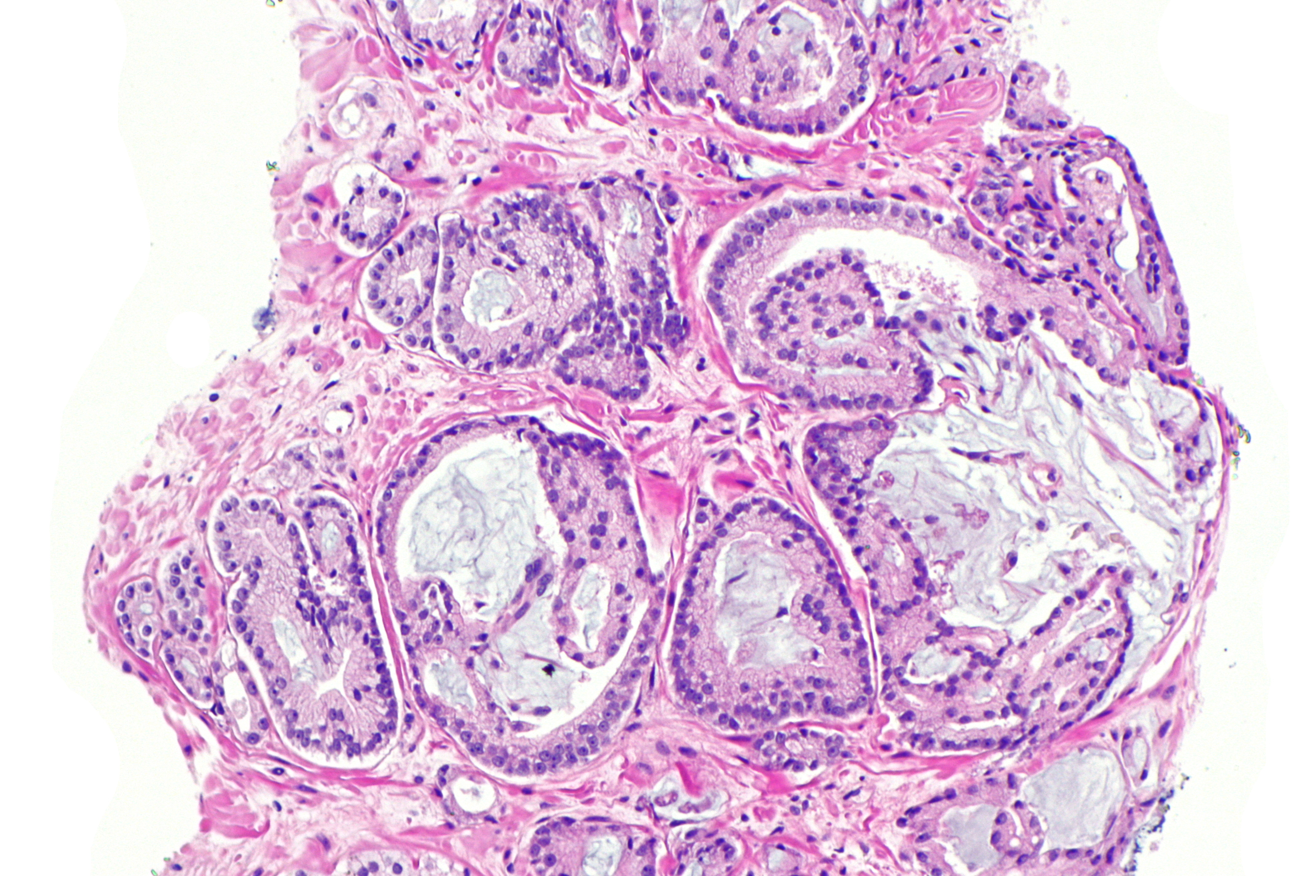 Micrograph showing prostatic carcinoma with intraglandular blue mucin, a feature suggestive of malignancy. H&E stain. The fields shown have a small amount of Gleason pattern 4 on the background of Gleason pattern 3. Related images PC with blue mucin - low mag. PC with blue mucin - intermed. mag. PC with blue mucin - intermed. mag. PC with blue mucin - intermed. mag. PC with blue mucin - high mag. PC with blue mucin - very high mag.